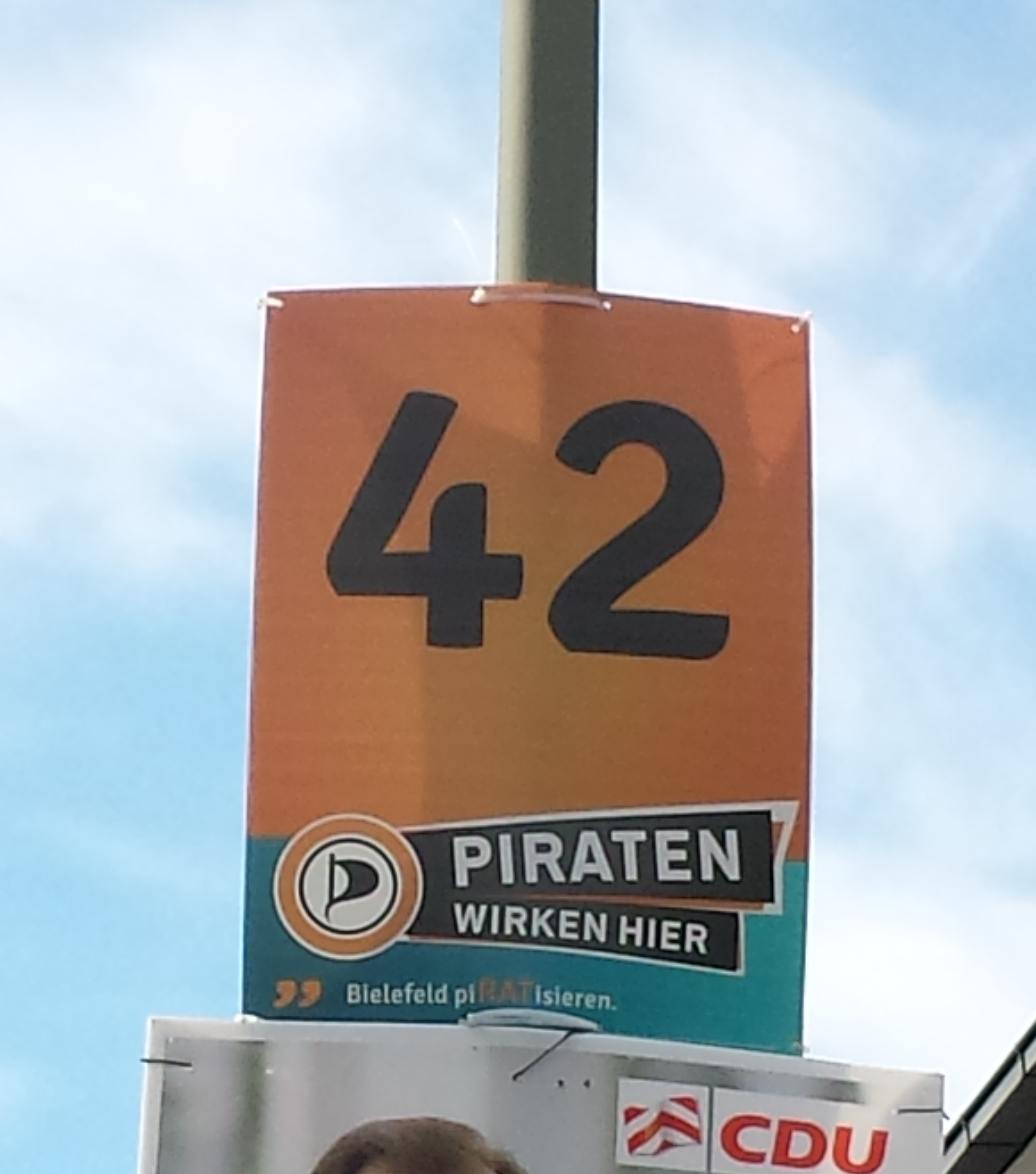 Election poster of the German Pirate Party for the 2014 Bielefeld local election